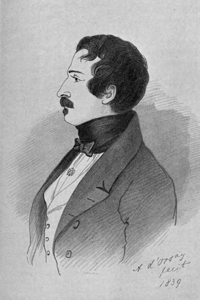 Louis-Napoléon Bonaparte. The original caption of the work is Napoléon Louis B. Drawing by Alfred d'Orsay. This reproduction is from the version engraved by Henry Adlar, as evidenced by the mention below the drawing and still visible in this reproduction.